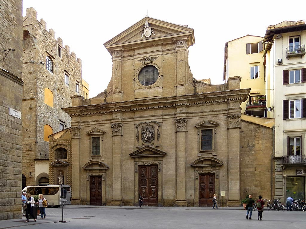 Basilica di Santa Trinita (Holy Trinity), Piazza Santa Trinita, Florence